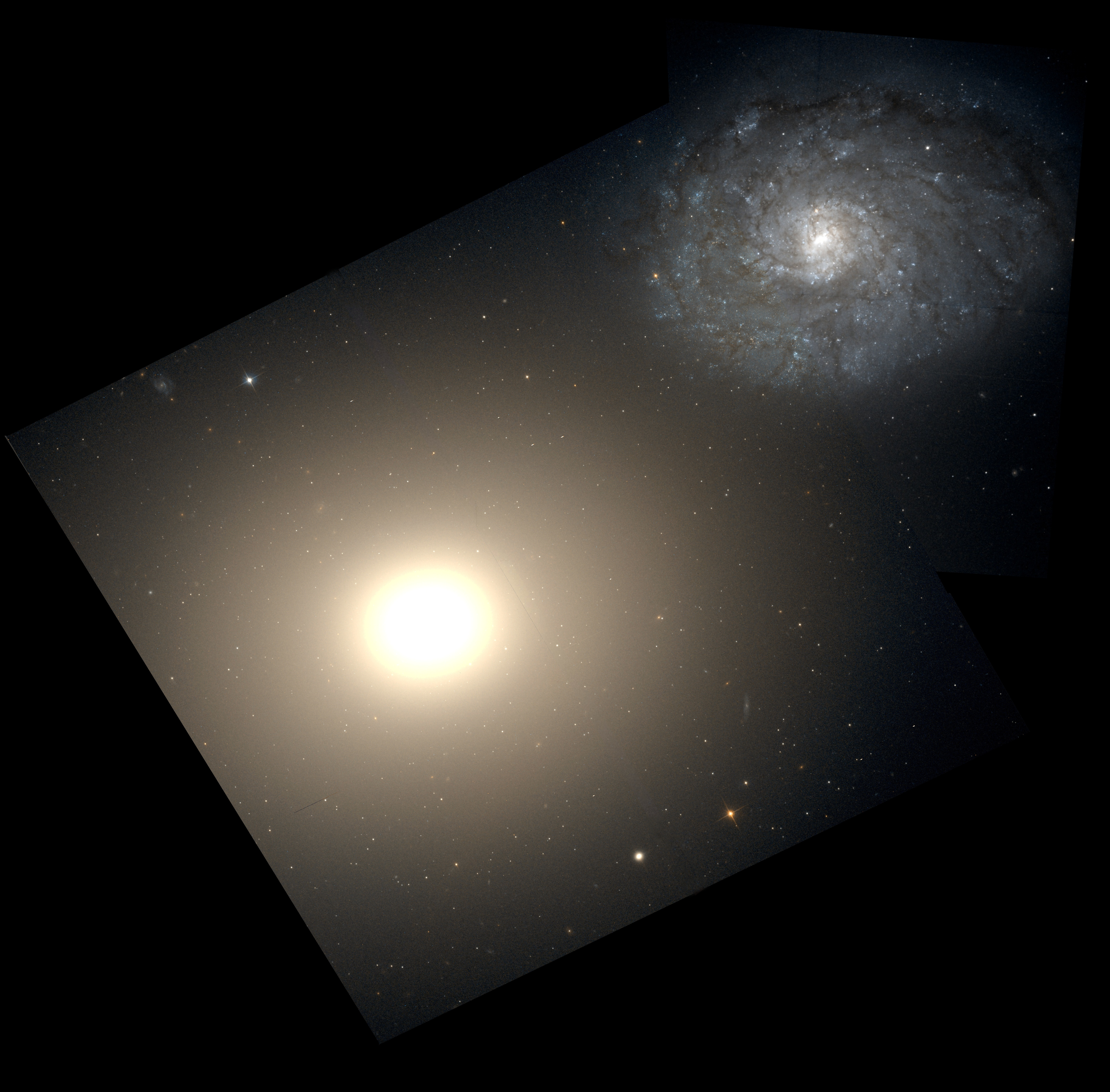 Color rendering is done by by Aladin-software (2000A&AS..143...33B.)